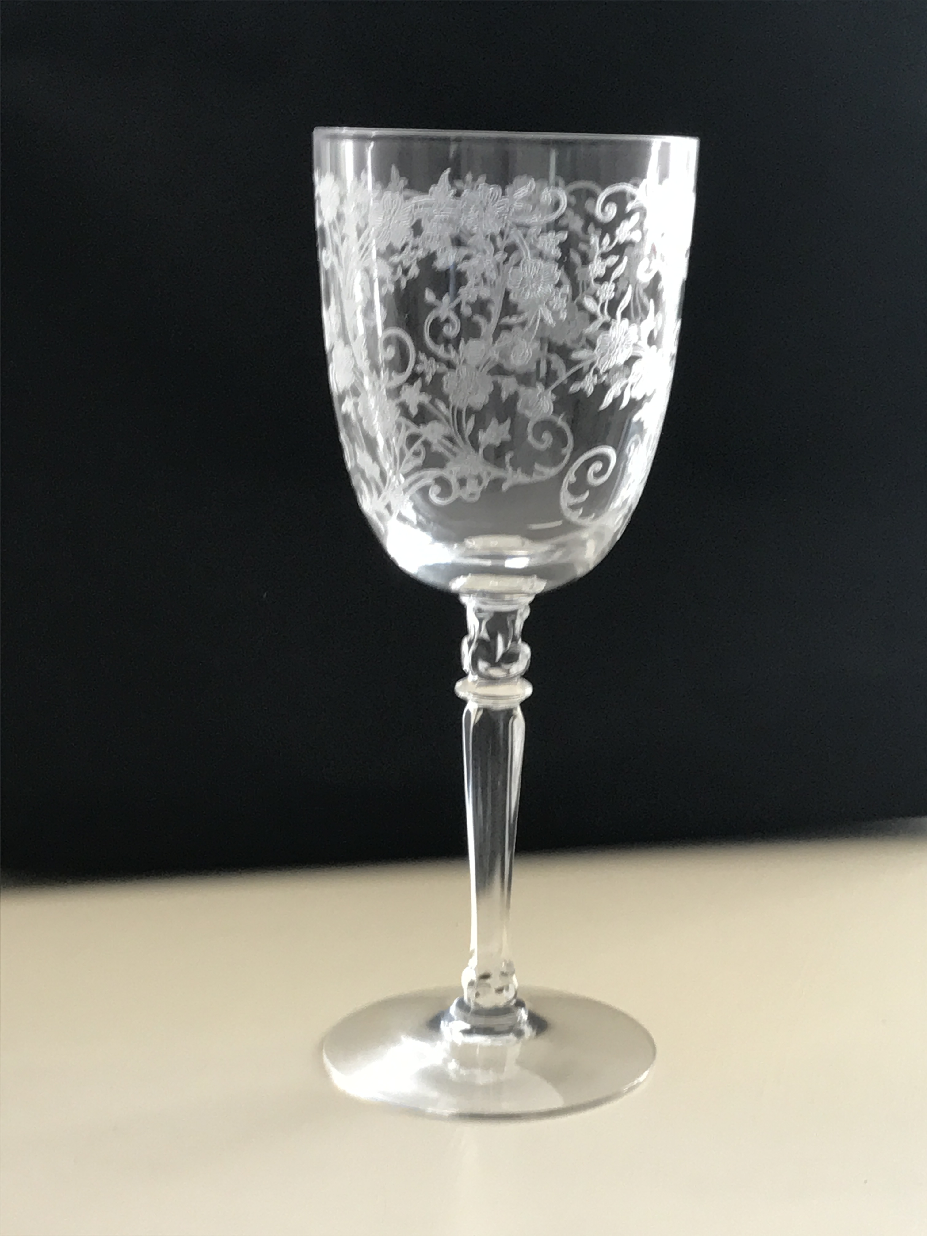 Glassware from Fostoria Glass Company (personal collection)